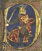 Theobald I/IV of Navarre-Champagne. (Bibliothèque nationale de France, Français 12615, fol. 1, Detail)